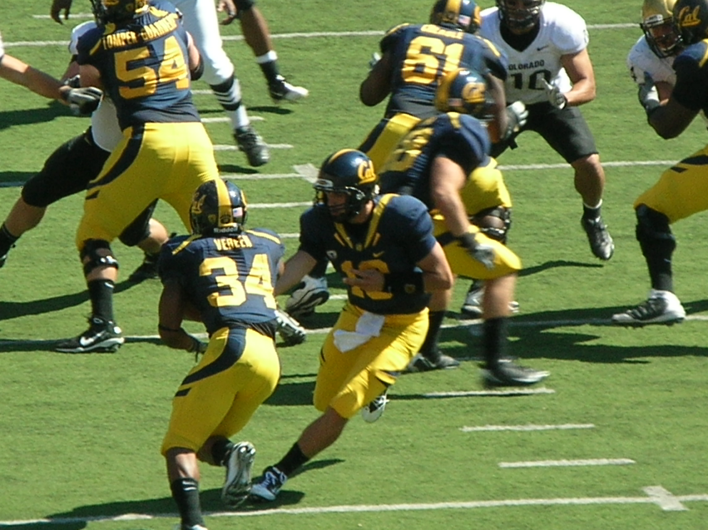 Cal on offense during a home game against the Colorado Buffaloes. The Golden Bears won 52-7.